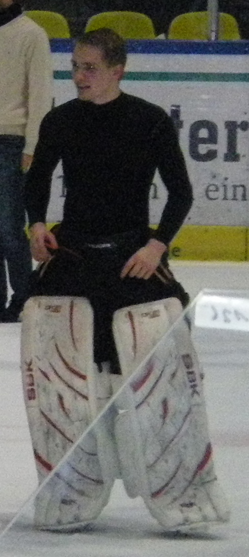 Markus Keller, then EC Bad Nauheim's goalkeeper, is celebrating a victory over their hosts and local rivals Löwen Frankfurt on Jan 22, 2012